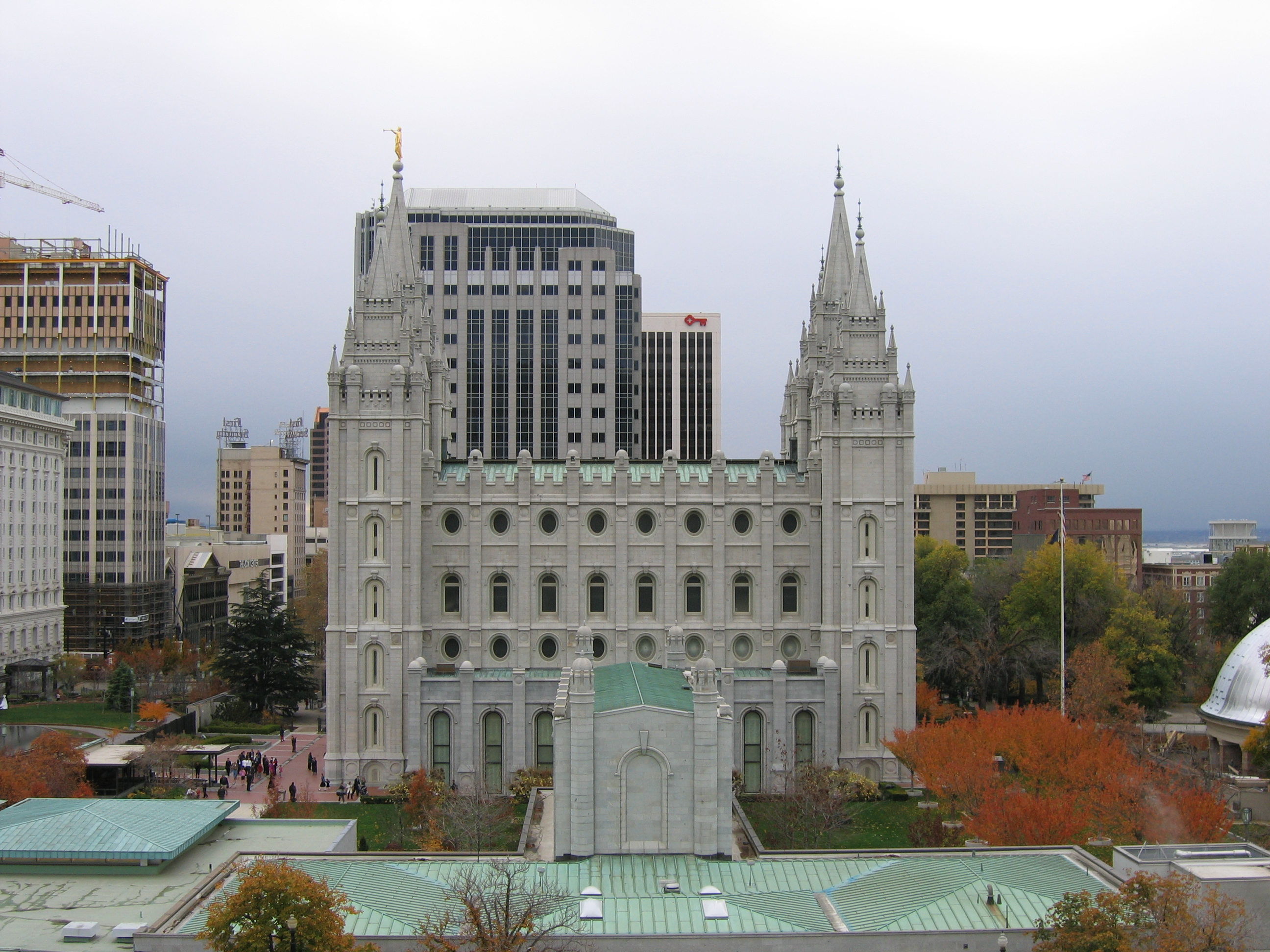 The Salt Lake Temple of The Church of Jesus Christ of Latter-day Saints, Salt Lake City, Utah, USA.